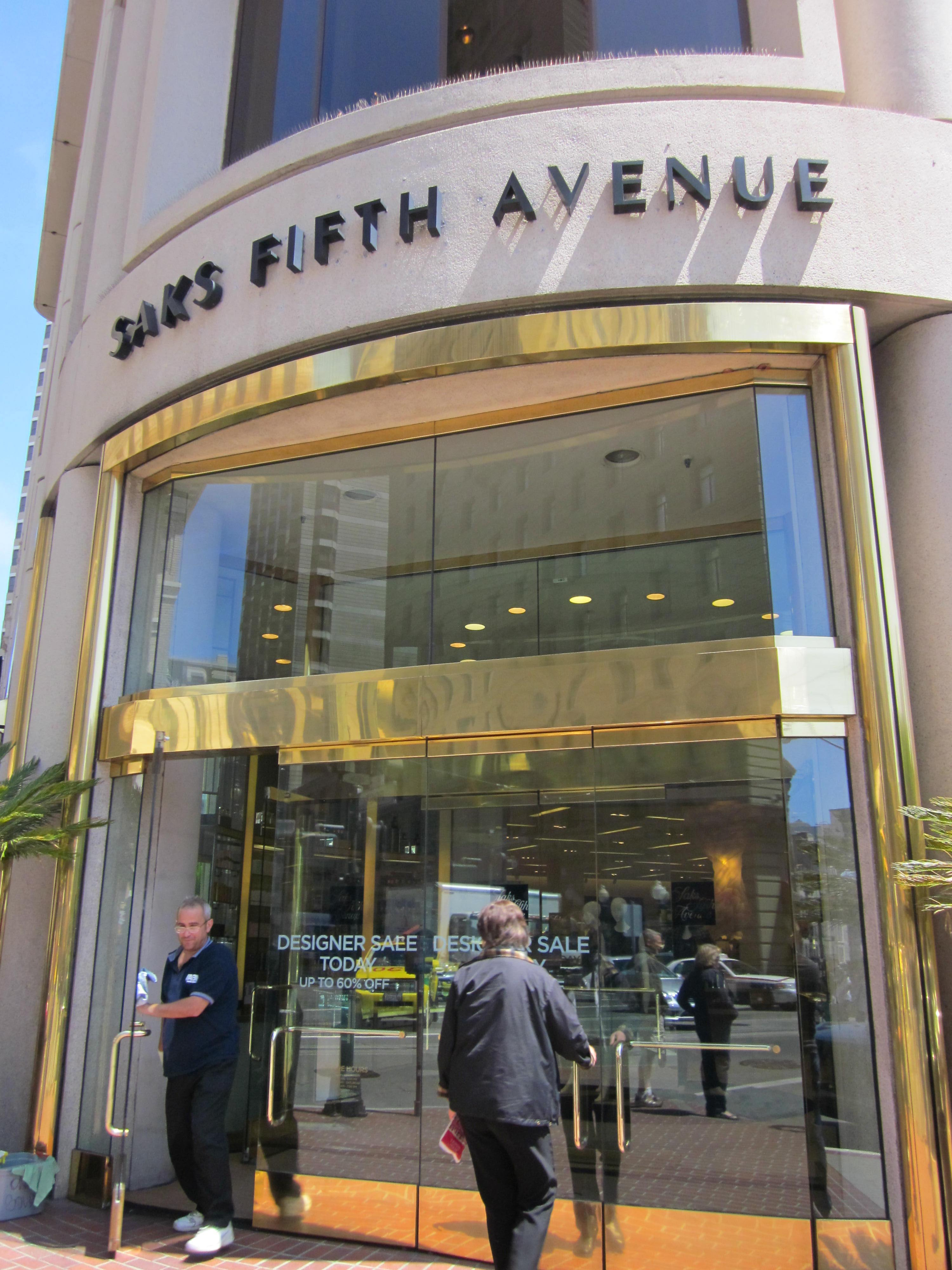 Saks Fifth Avenue at Union Square, San Francisco.